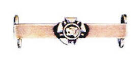 Bar to the Nkwe ya Boronzi - Bronze Leopard, post-nominal letters NB, awarded to persons who have distinguished themselves by performing acts of bravery during military operations